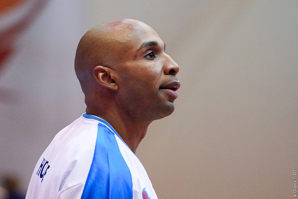 Fred House at the 2011 Ukrainian Superleague All-Star Game.